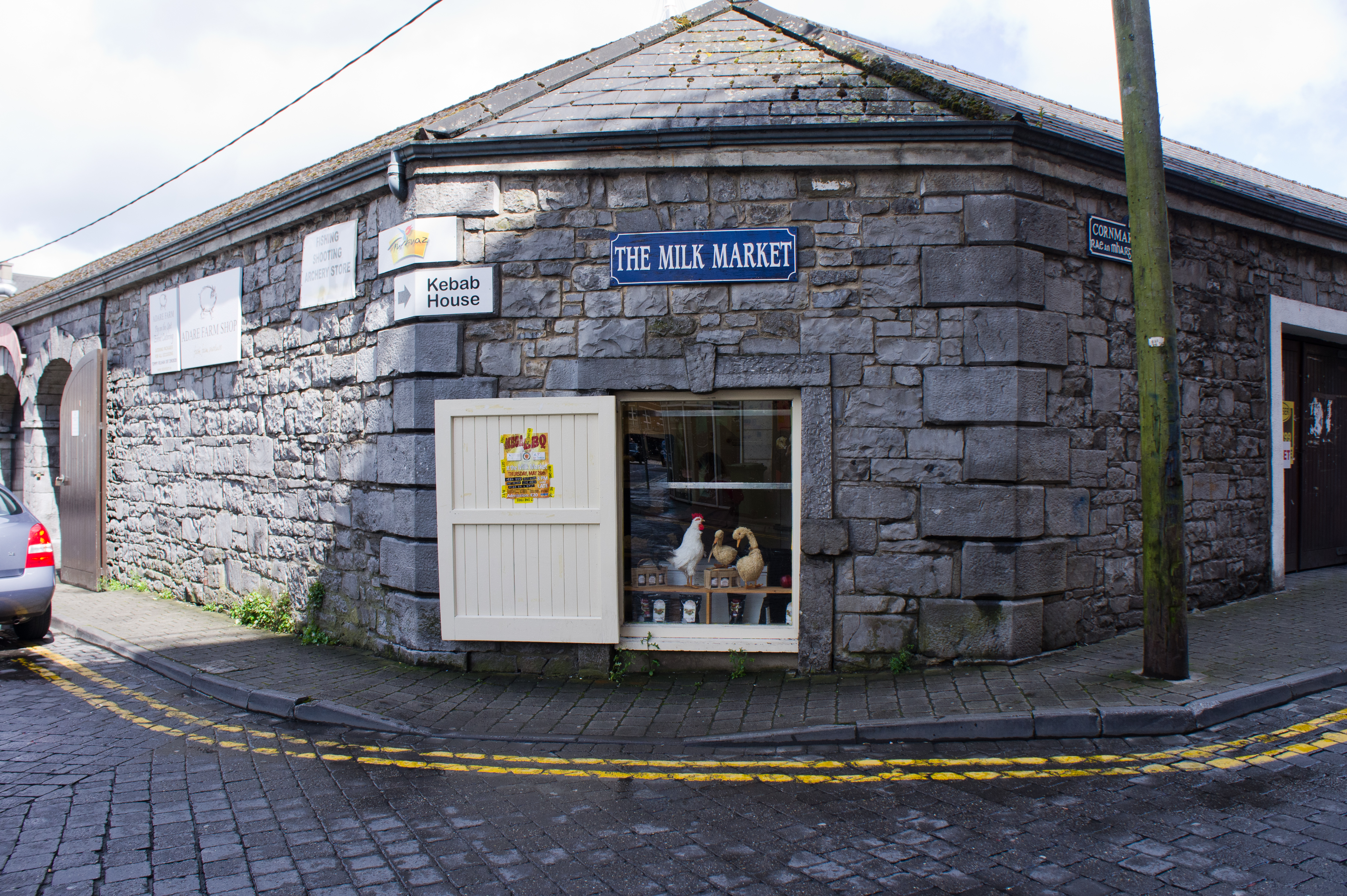 The Milk Market located at Cornmarket Row in the city centre sells locally produced foods and products. The market is run by the Limerick Market Trustees and is one of the oldest markets run in the country. The market is open on Friday, Saturday and Sunday with the Saturday market acting as the flagship and most popular market day. In 2010 work was undertaken to redevelop the existing market premises to an all – weather, all year round market facility as the market operated in an outdoor environment. The work involved constructing a large canopy over the existing market premises and was officially re-opened in June 2010.